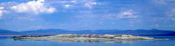 Paoha Island, Mono Lake, California. Based on